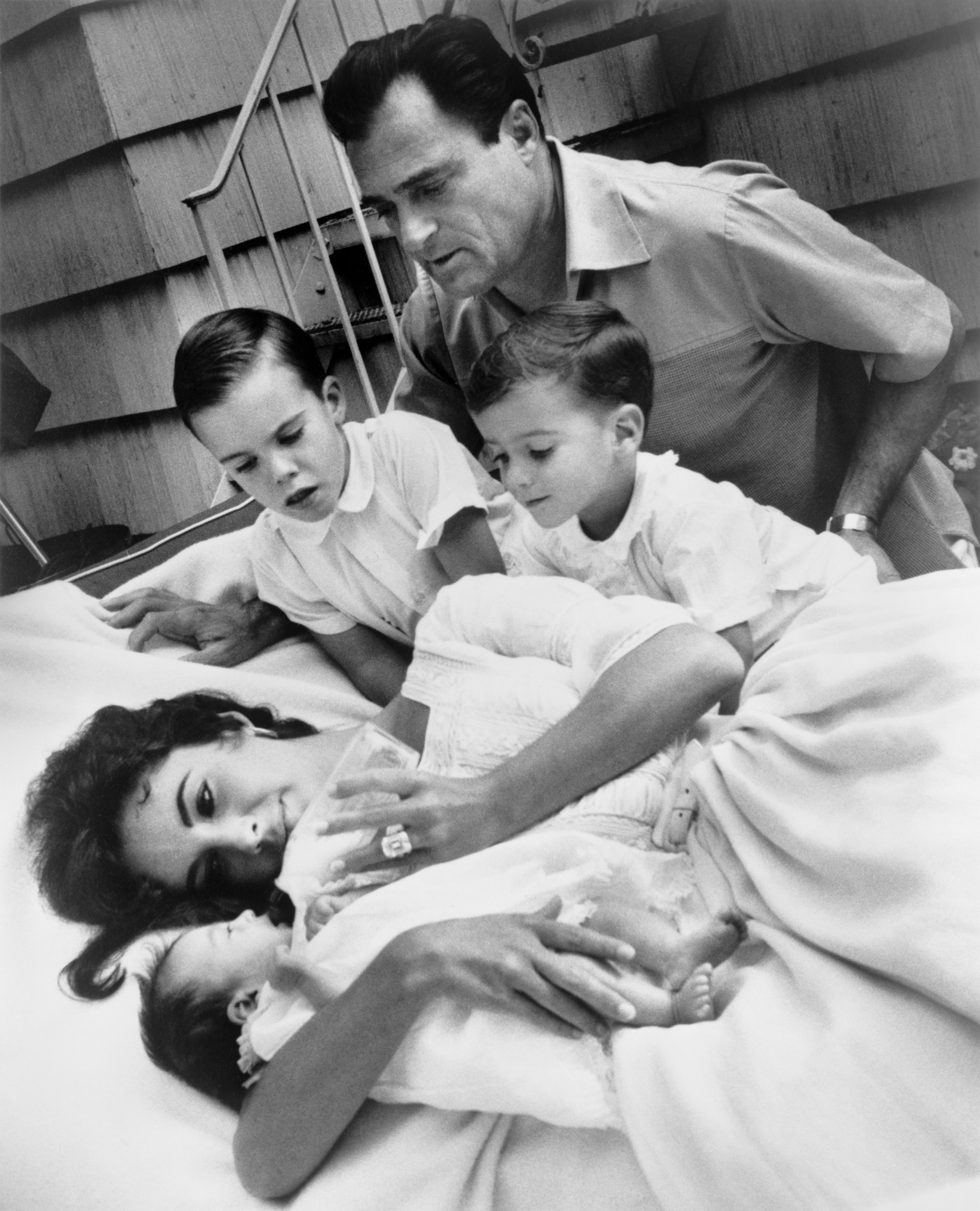 Elizabeth Taylor bottle-feeding newborn Liza Todd with her sons Christopher and Michael H. Wilding, and her husband Michael Todd observing. Photograph by Toni Frissell, listed as September 1957, but more likely early August 1957.